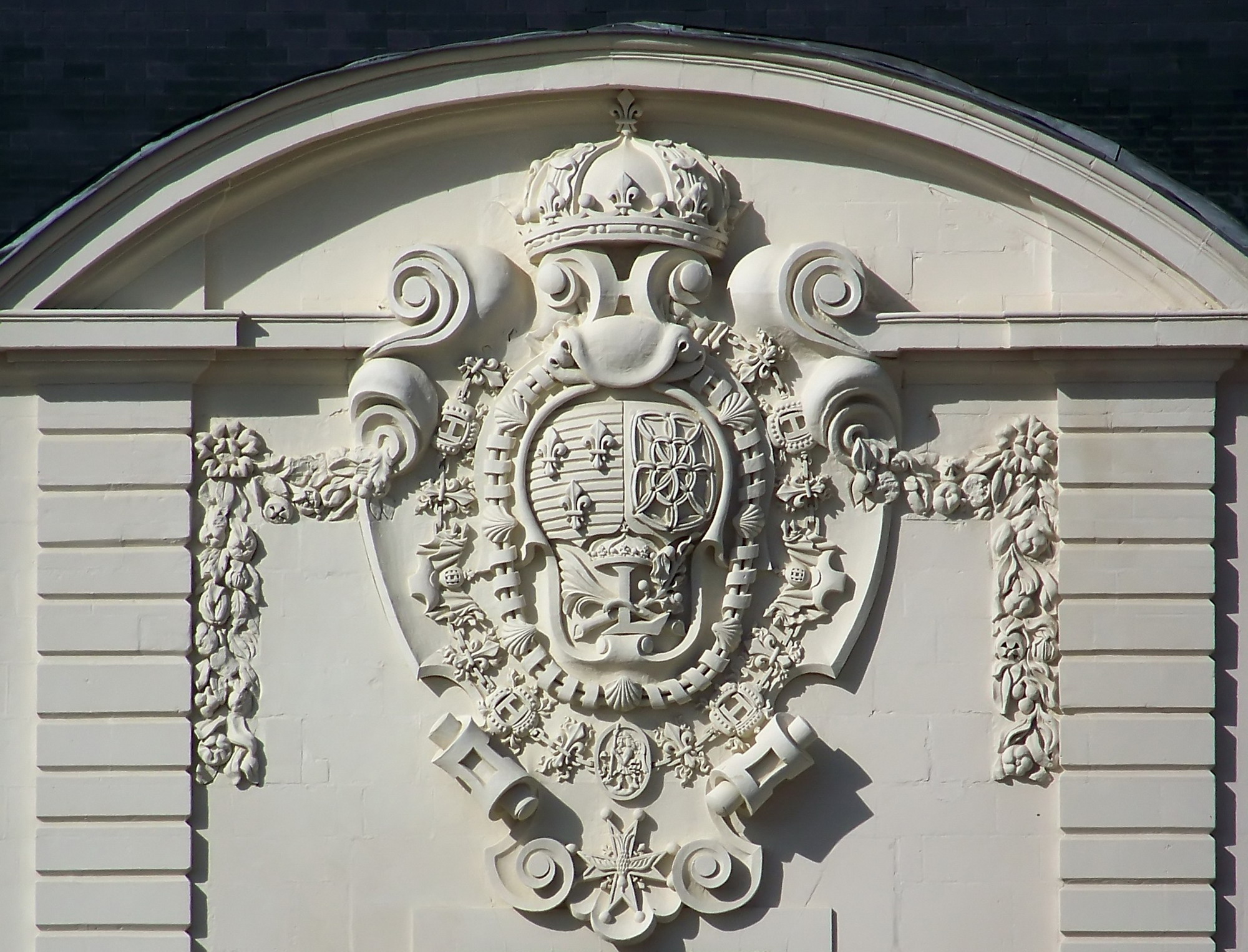 Coats of arms of the kingdom of France and Navarre, installed by Louis XIV on the facade of the Grand Gouvernement building in the Château des ducs de Bretagne, in Nantes.